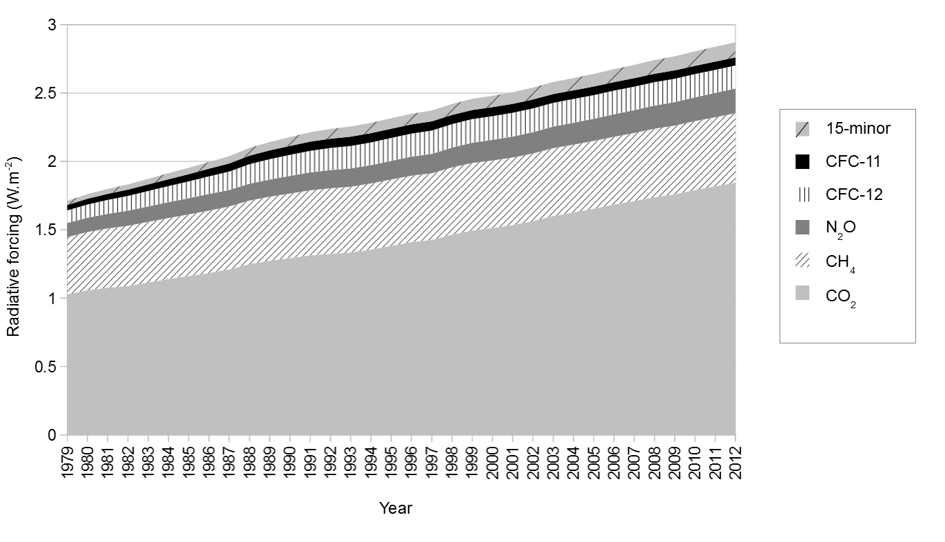 This graph shows changes in radiative forcing of long-lived greenhouse gases between 1979-2012. These gases are carbon dioxide (CO2), methane (CH4), nitrous oxide (N2O), chlorofluorocarbon-12 (CFC-12), CFC-11, and fifteen other minor, long-lived, halogenated gases. The 15 other halogenated gases are CFC-113, tetrachloromethane (CCl4), trichloromethane (CH3CCl3); hydrochlorofluorocarbons (HCFCs) 22, 141b and 142b; hydrofluorocarbons (HFCs) 134a, 152a, 23, 143a, and 125; sulfur hexafluoride (SF6), and halons 1211, 1301 and 2402). The graph does not include other forcings, such as aerosols and changes in solar activity. Summary Total forcing in 1979 was 1.712 watts per square metre (W.m-2), and has steadily increased over time to 2.873 W.m-2 in 2012. Between 1979-2012, the largest contributors to radiative forcing have been CO2 and CH4. In 2012, the percentage contributions of each gas to total forcing was approximately: CO2: 64% CH4: 18% N2O: 6% CFC-12: 6% CFC-11: 2% 15 minor gases: 4% Forcing data are briefly summarized below. All the data are available in a later section as comma-separated values. The first value is the year, followed by forcing values (in W.m-2) for CO2, CH4, N2O, CFC-12, CFC-11, the 15-minor halogenated gases, and total forcing, respectively: 1979: 1.027, 0.419, 0.104, 0.092, 0.039, 0.031, 1.712 1980: 1.058, 0.426, 0.104, 0.097, 0.042, 0.034, 1.761 1990: 1.293, 0.472, 0.129, 0.154, 0.065, 0.065, 2.178 2000: 1.513, 0.494, 0.151, 0.173, 0.066, 0.083, 2.481 2010: 1.791, 0.504, 0.174, 0.170, 0.060, 0.106, 2.805 2012: 1.846, 0.507, 0.181, 0.168, 0.059, 0.111, 2.873 References: Butler, J.H. and S.A. Montzka (2013-08-01) THE NOAA ANNUAL GREENHOUSE GAS INDEX (AGGI)[1], NOAA/ESRL Global Monitoring Division